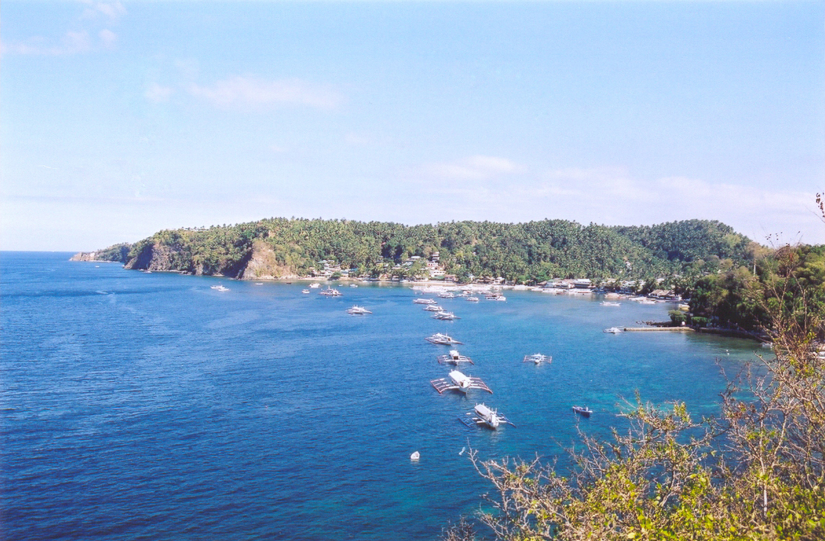 The bay in front of Sabang, municipality Puerto Galera, Oriental Mindoro in the Philippines Picture taken by Magalhães in 2003.